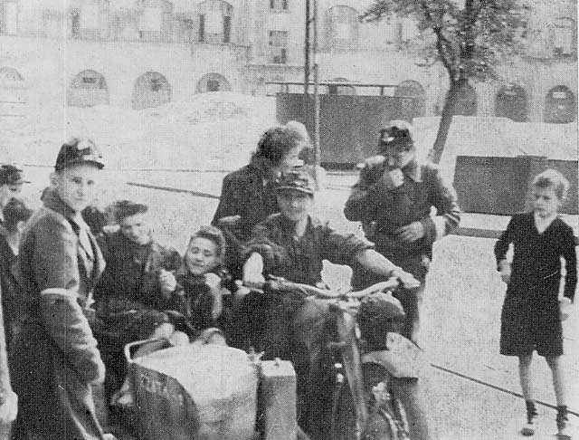 WarsawUprising: Group of soldiers from Battalion "Czata 49" on Franciszkańsk.a Street. On the back seet curier Anna Wyganowska "Ewa" talking to "Kropka".